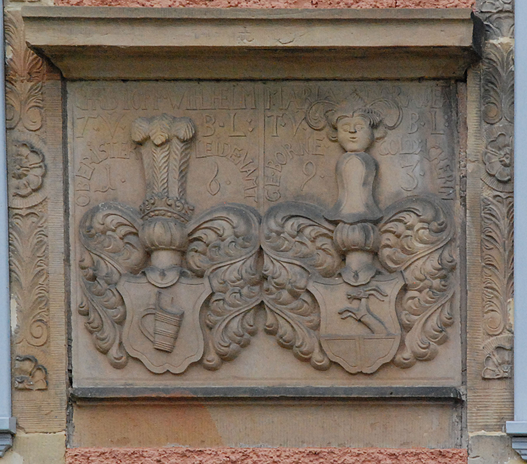 Willershausen in Hesse, Germany - Treusch von Buttlar coat of arms (left)